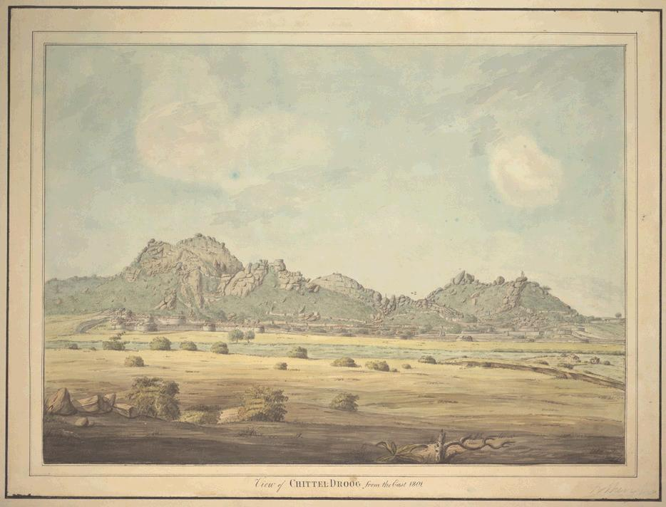 E.view of the hill fort of Chitaldrug (Mysore).